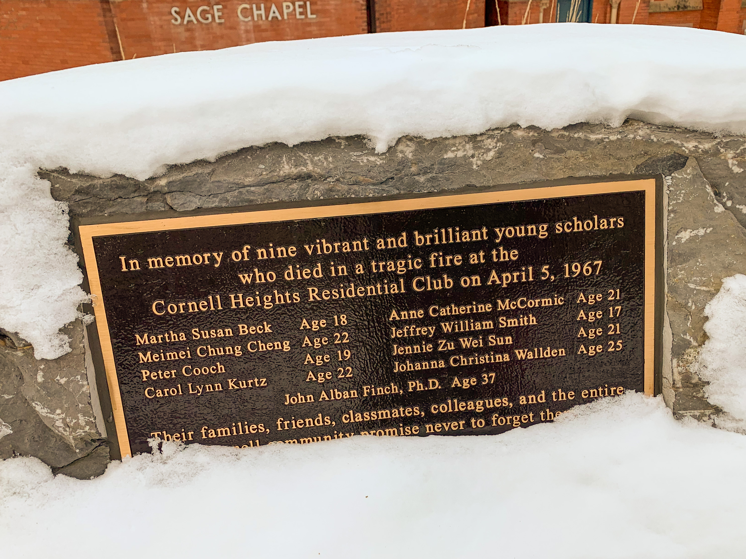 This plaque in front of Sage Chapel memorializes the students who died in the 1967 fire at the Cornell Heights Residential Club.